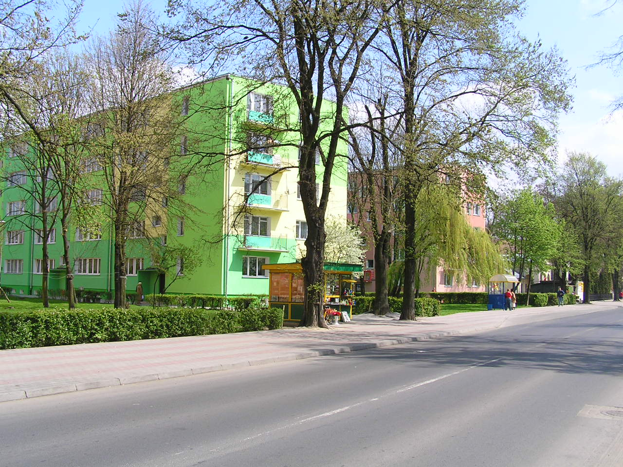 autor: Yarek shalom 22:09, 25 October 2006 (UTC)yarek shalom